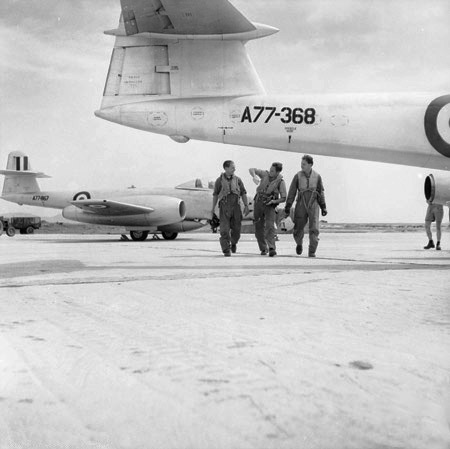 Kunsan, South Korea. 1954-06-23. Pilots of No. 77 Squadron RAAF left to right, Roy (Nugget) Hibben, John Arthurson, and Keith Cottee after an operation in their Meteor MK8 jet fighter aircraft. Meteor A77-867 is at left rear and the tail of A77-368 is in the foreground. The latter aircraft is preserved and displayed at the Australian War Memorial in Canberra.